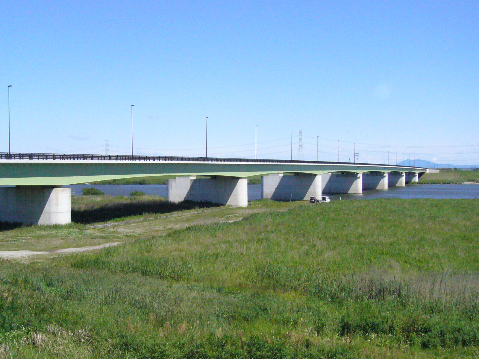 Wakakusa Bridge (Wakakusa-ohashi) over the Tone River on the border of Ibaraki and Chiba Prefectures, Japan